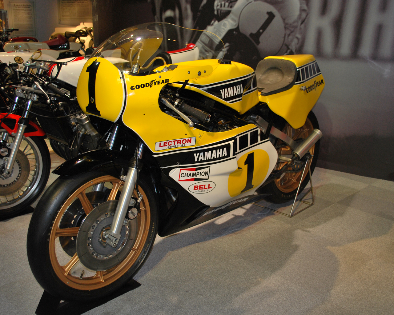 Yamaha YZR500 (1978 OW35K, Kenny Roberts)